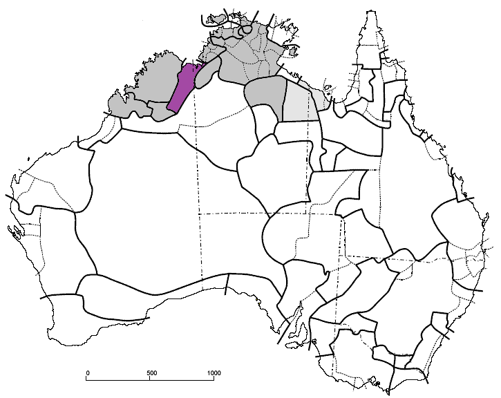 Jarrakan languages (purple), among other non-Pama-Nyungan languages (grey)